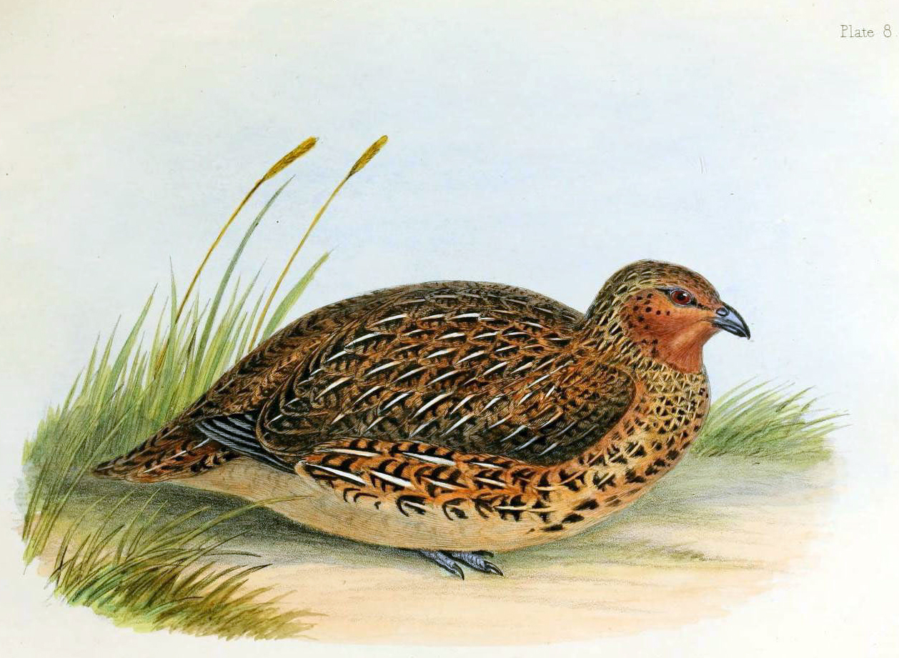 « Coturnix novae zealandiae » = Coturnix novaezelandiae (New Zealand Quail)